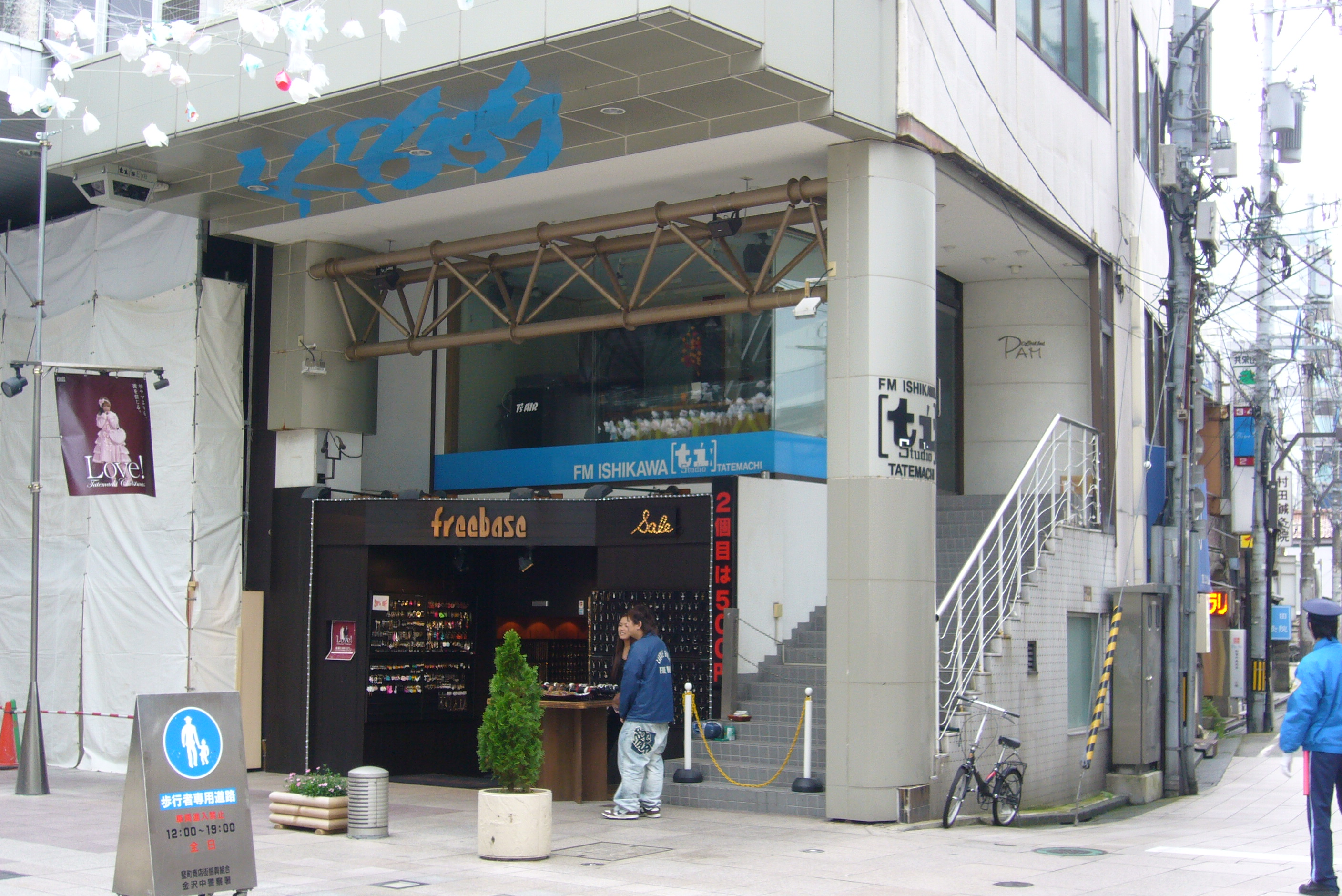 Studio ti(Satellite studio of FM Ishikawa Broadcasting company)